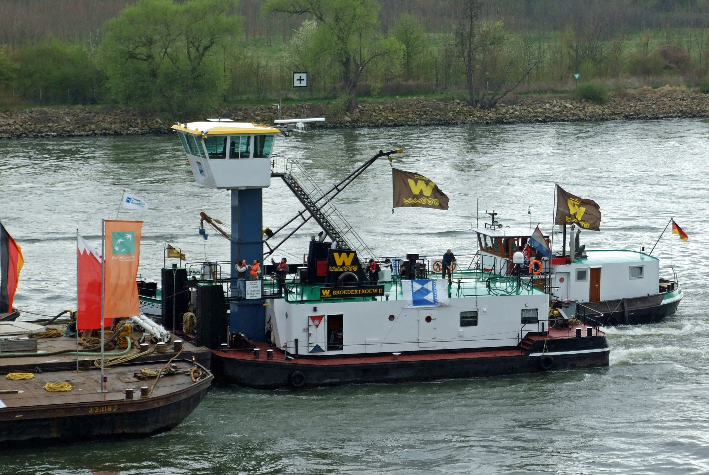 Towboat at rhine-river